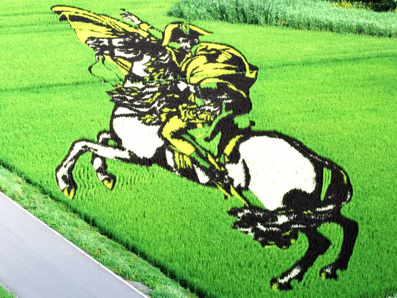 Sengoku busho of rice field art at Inakadate village